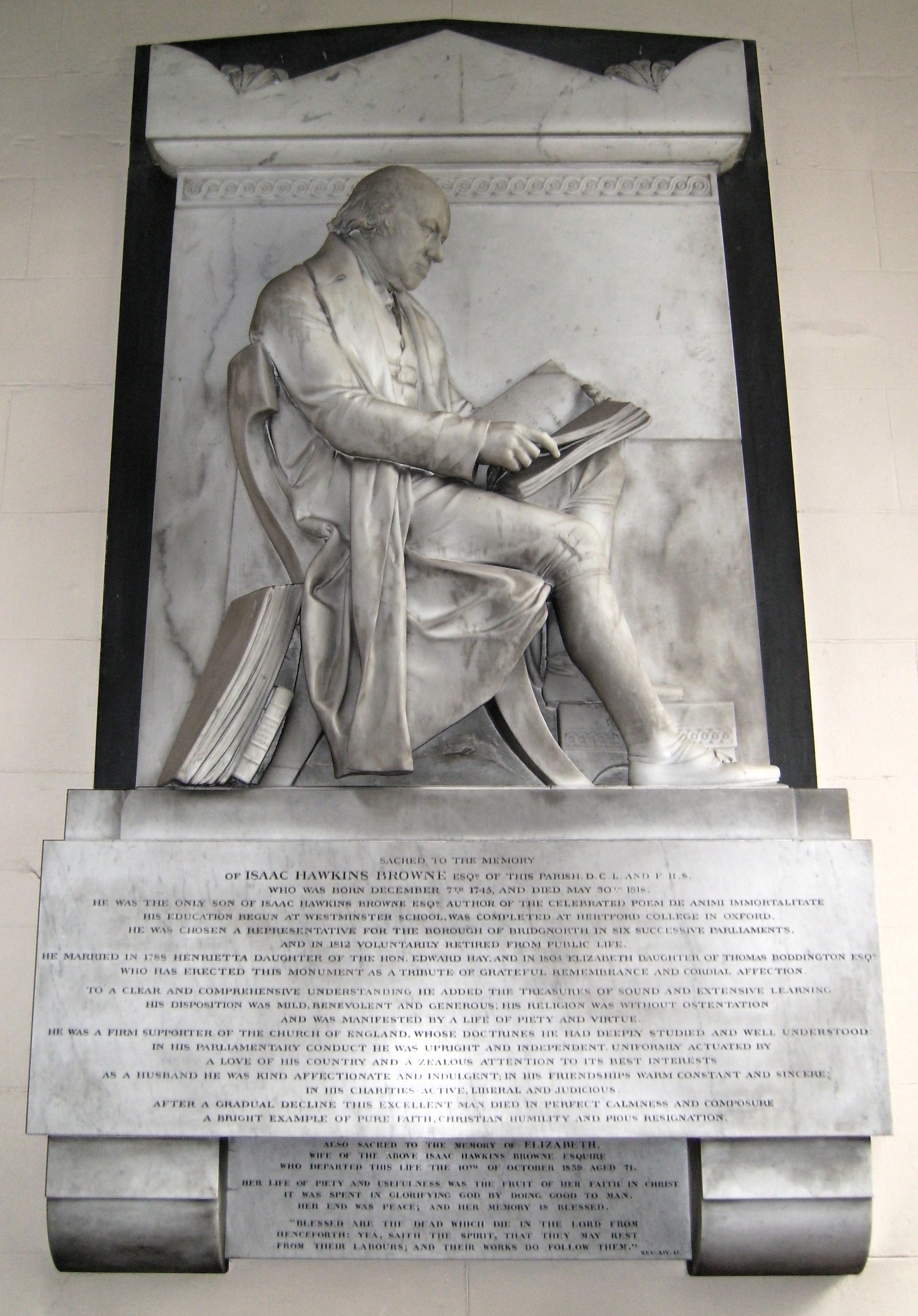 Monument to Isaac Hawkins Browne, essayist, Tory politician, MP for Bridgnorth 1784-1812. St. Giles church, Badger, Shropshire, England. By Francis Leggatt Chantrey.